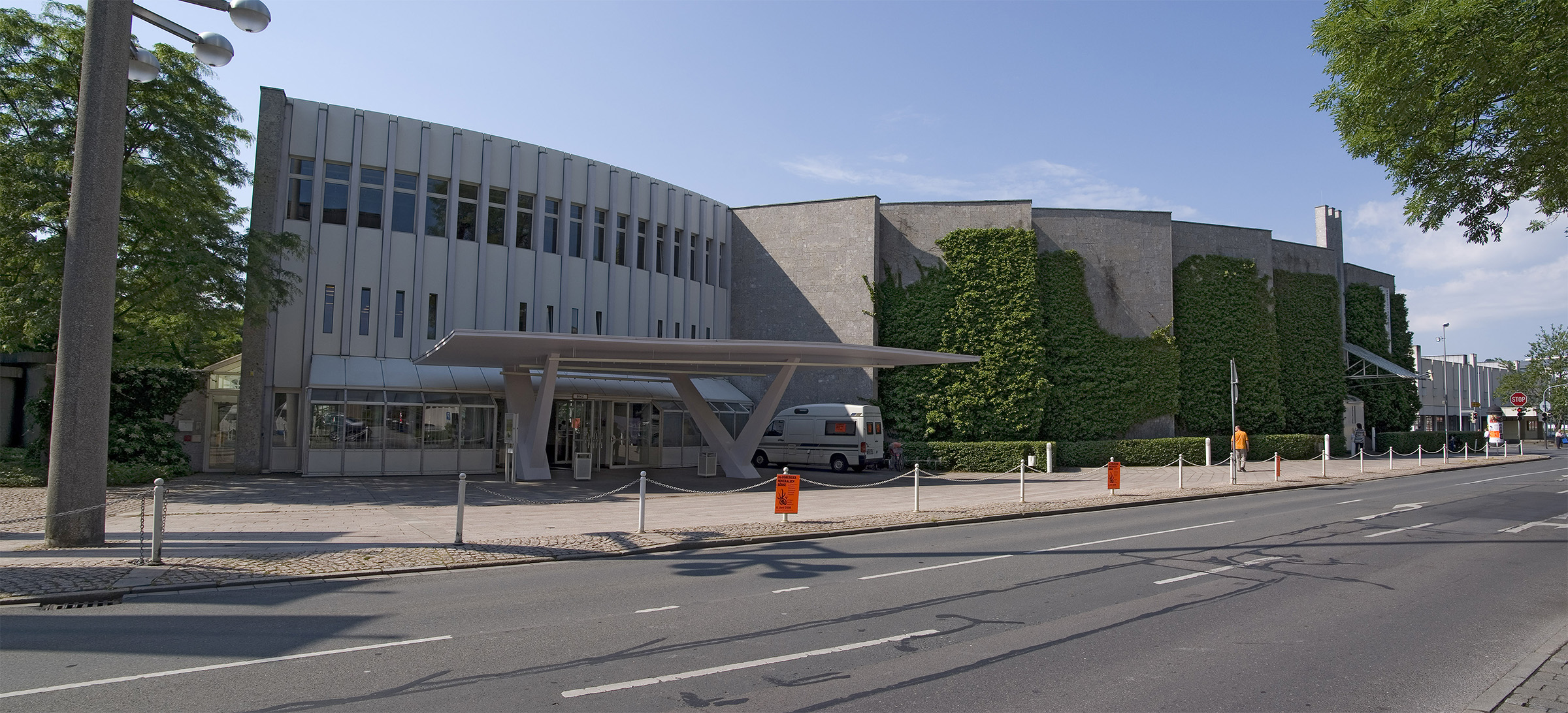 Kongresshaus Coburg, germany